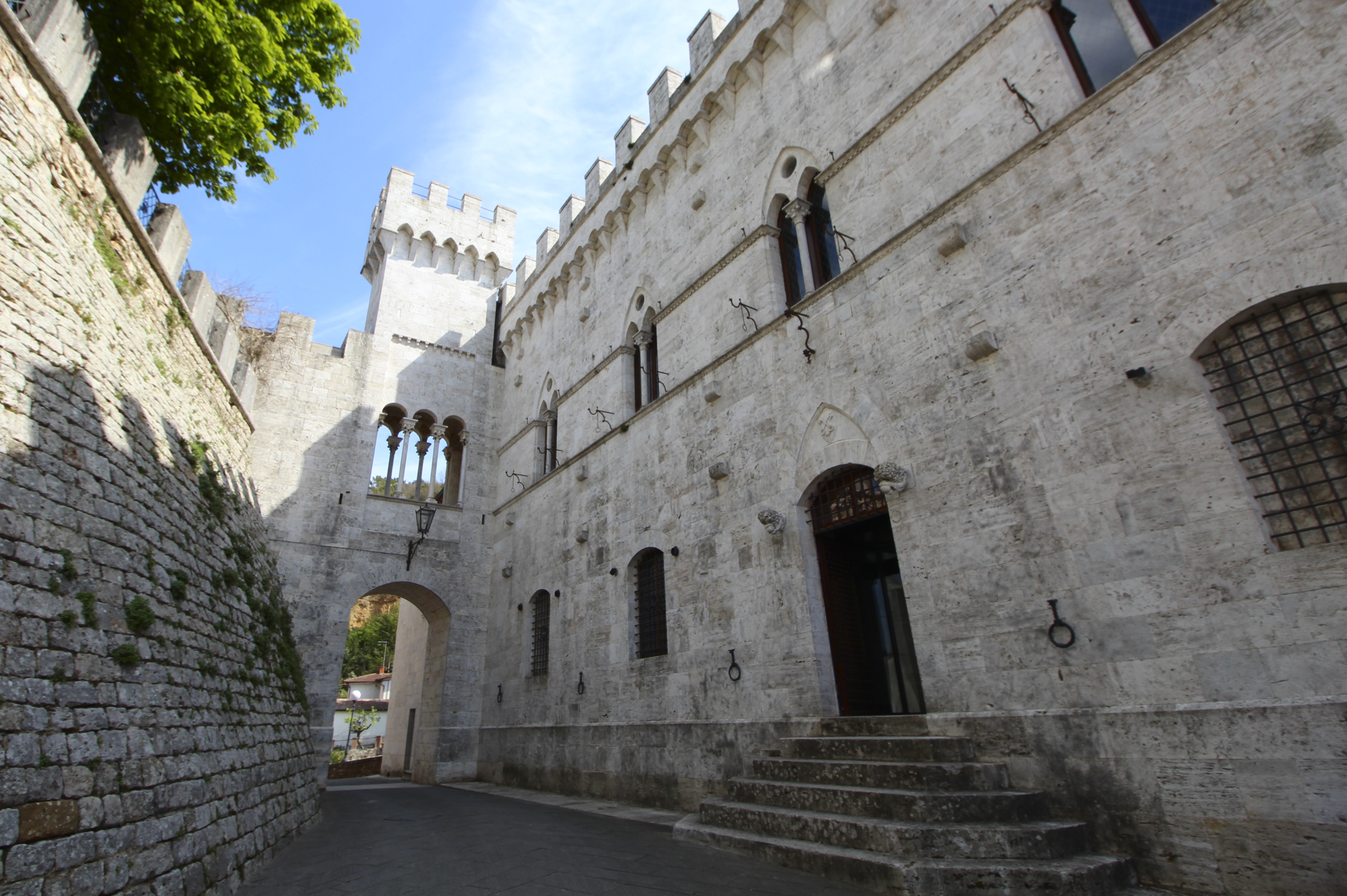 Palazzo Gori Martini, Serre di Rapolano, hamlet of Rapolano Terme, Province of Siena, Tuscany, Italy